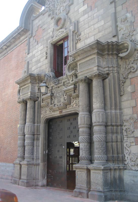 Escuela Nacional de Bellas Artes del Peru